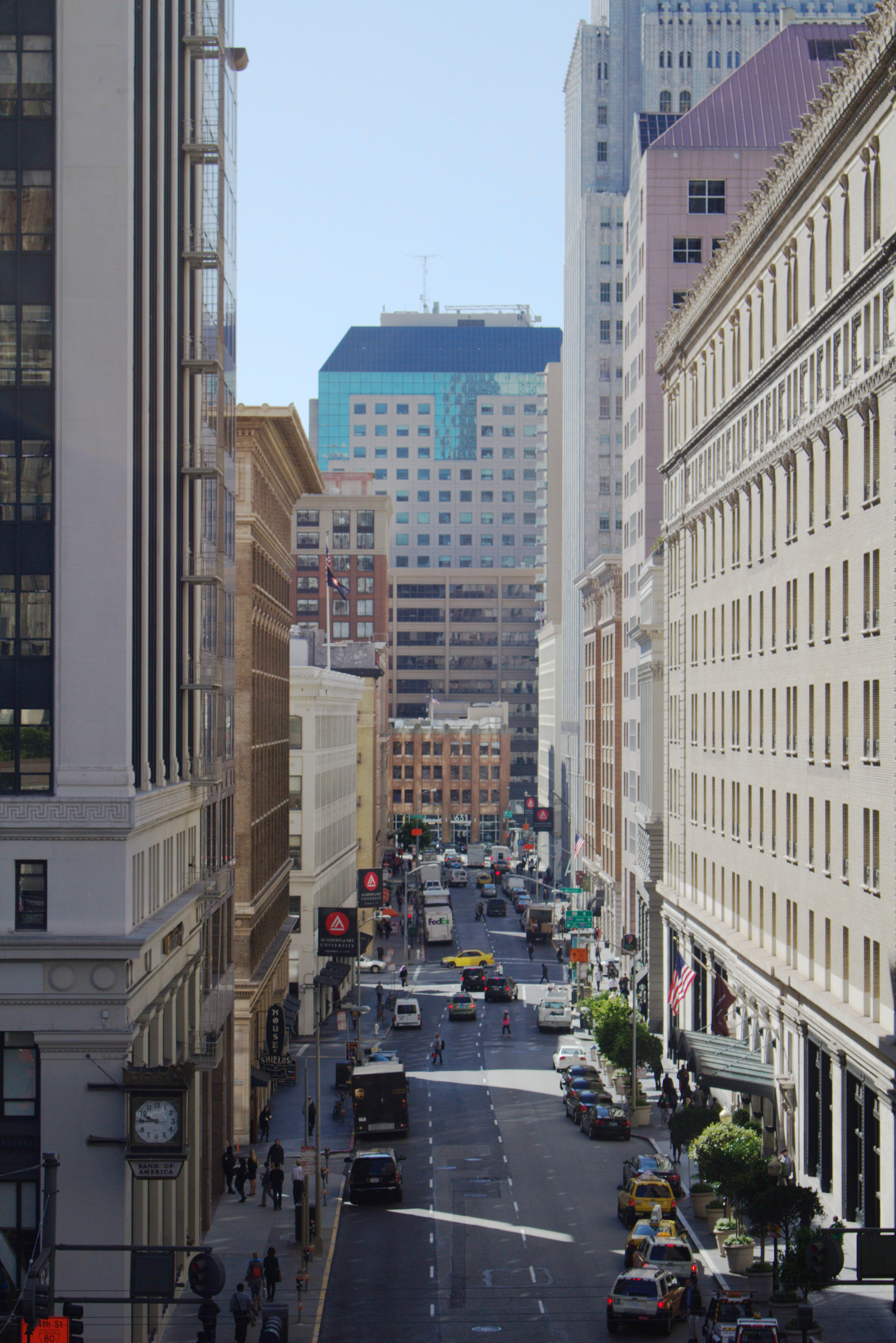 New Montgomery Street in San Francisco, seen in its entirety across Market Street from the Crocker Galleria rooftop terrace